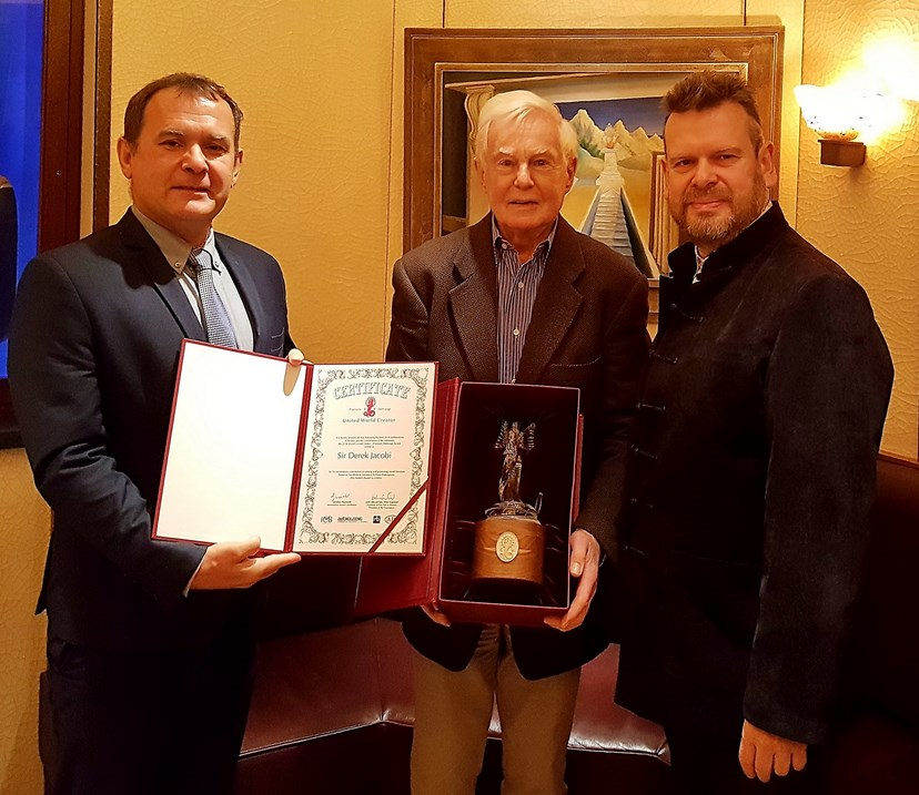 2019 World United Creator – Platinum Demiurge Award winner - sir Derek Jacobi with Roman Poślednik (left) and Jarosław PIjarowski.